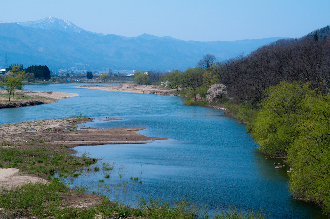 Mogami River seen from Nagai city. Mount Tōdono on the far left.